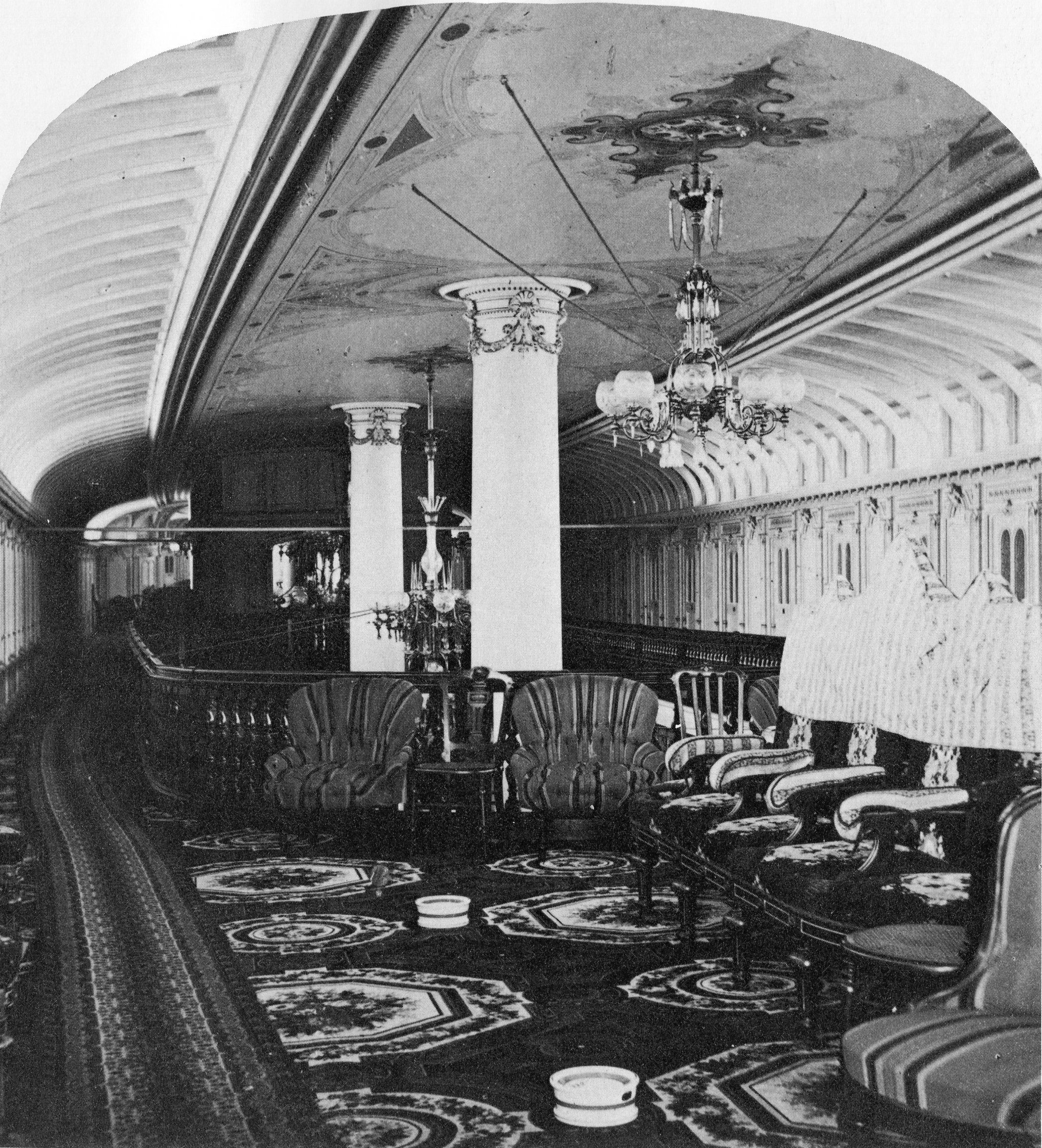 Interior of the saloon of the Long Island Sound steamboat Bristol, showing its "wood carving, ornate ceiling decoration, crystal chandeliers, richly upholstered chairs, lush carpeting and gilt-edged spitoons, all exemplifying the elegance once found on coastal steamboats". From a contemporary stereogram.